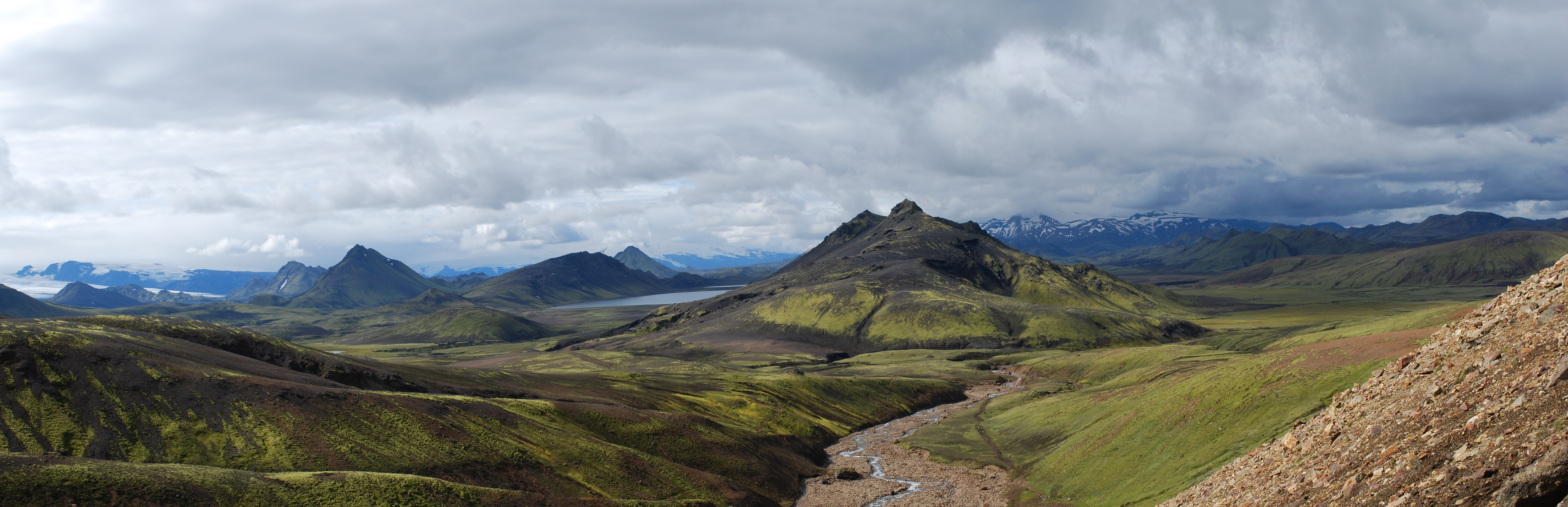 Landscape in Rainbow Mountains in Landmannalaugar region which is famous for geothermal activity, Iceland. GPS is only approximate. - Google Maps - Google Earth